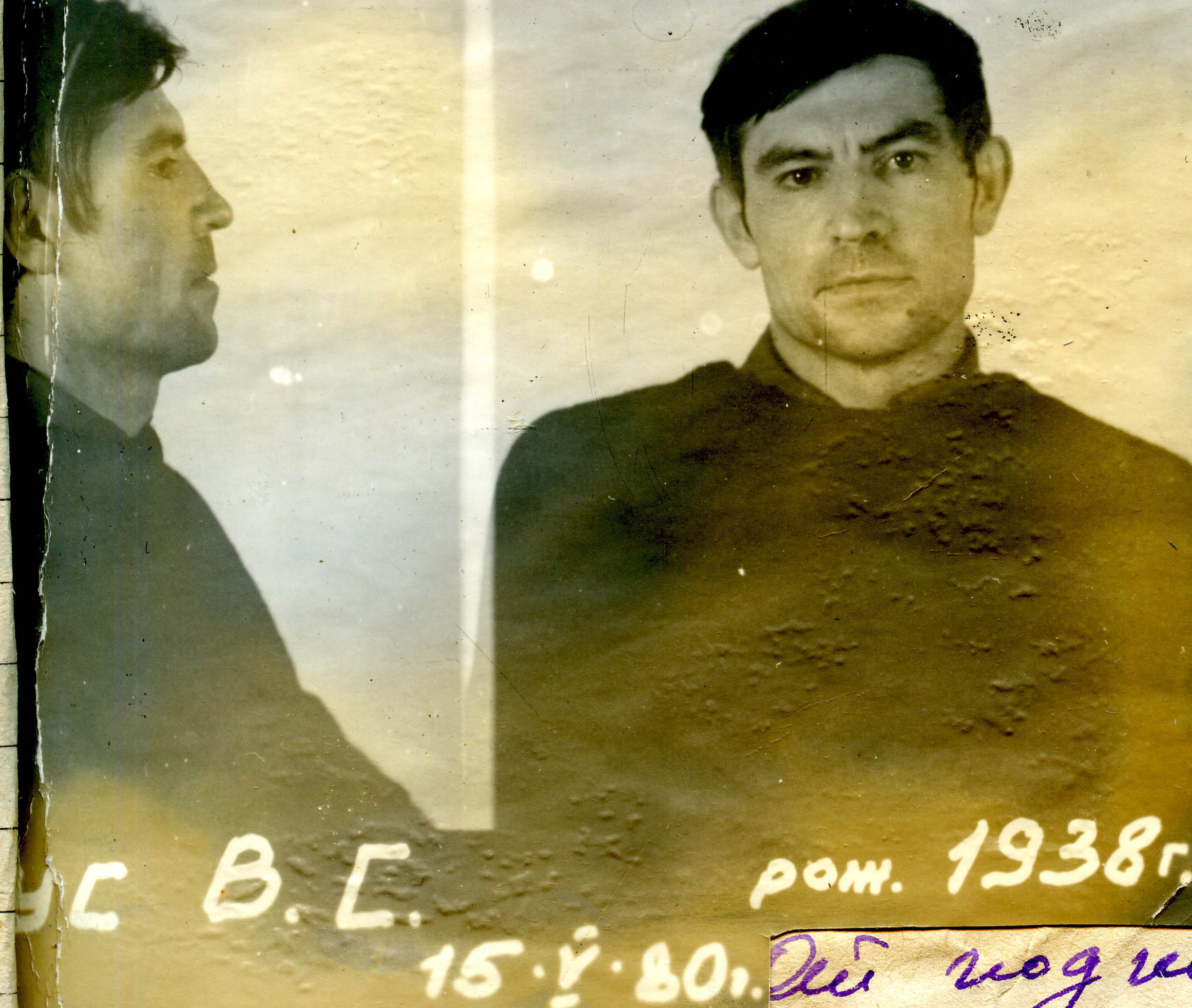 Vasyl Stus (1938-1985) Ukr. Васи́ль Семе́нович Стус - Ukrainian poet and publicist, one of the most active members of Ukrainian dissident movement. For his political convictions, his works were banned by the Soviet regime and he spent 23 years (about a half of his life) in detention. Official KGB photo from Stus file after arrest 1980